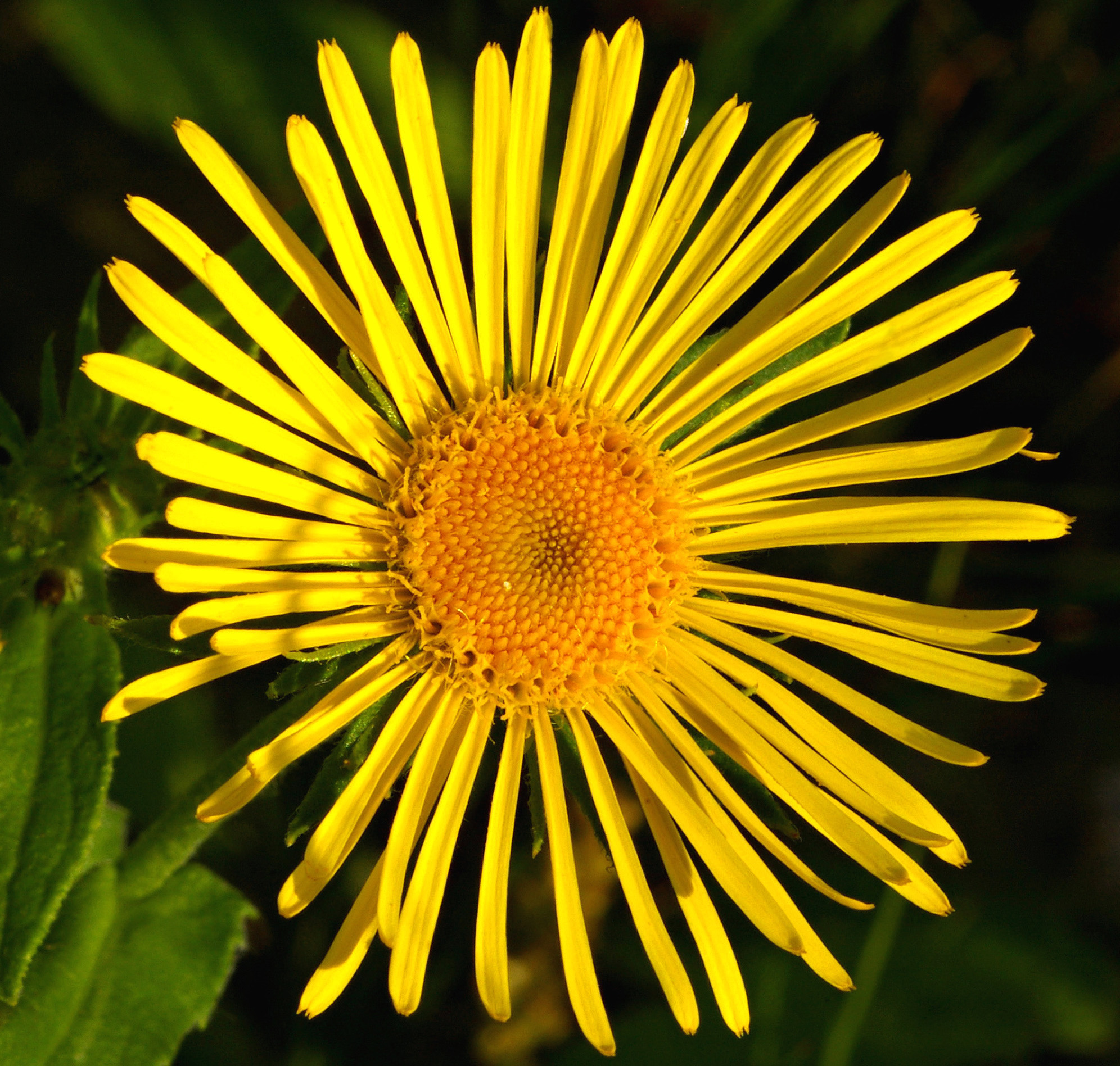 Inflorescence of British Yellowhead, Inula britannica (Asteraceae).